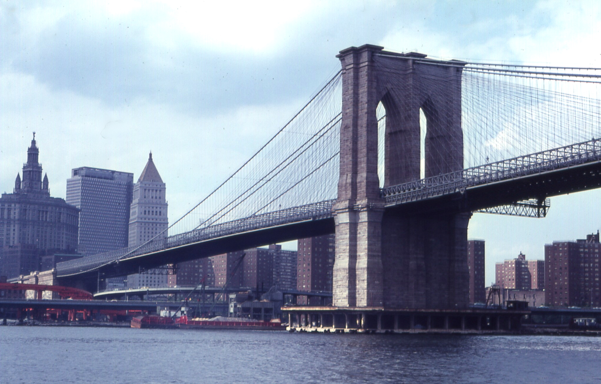 Brooklyn Bridge in August of 1967, New York City, New York, USA